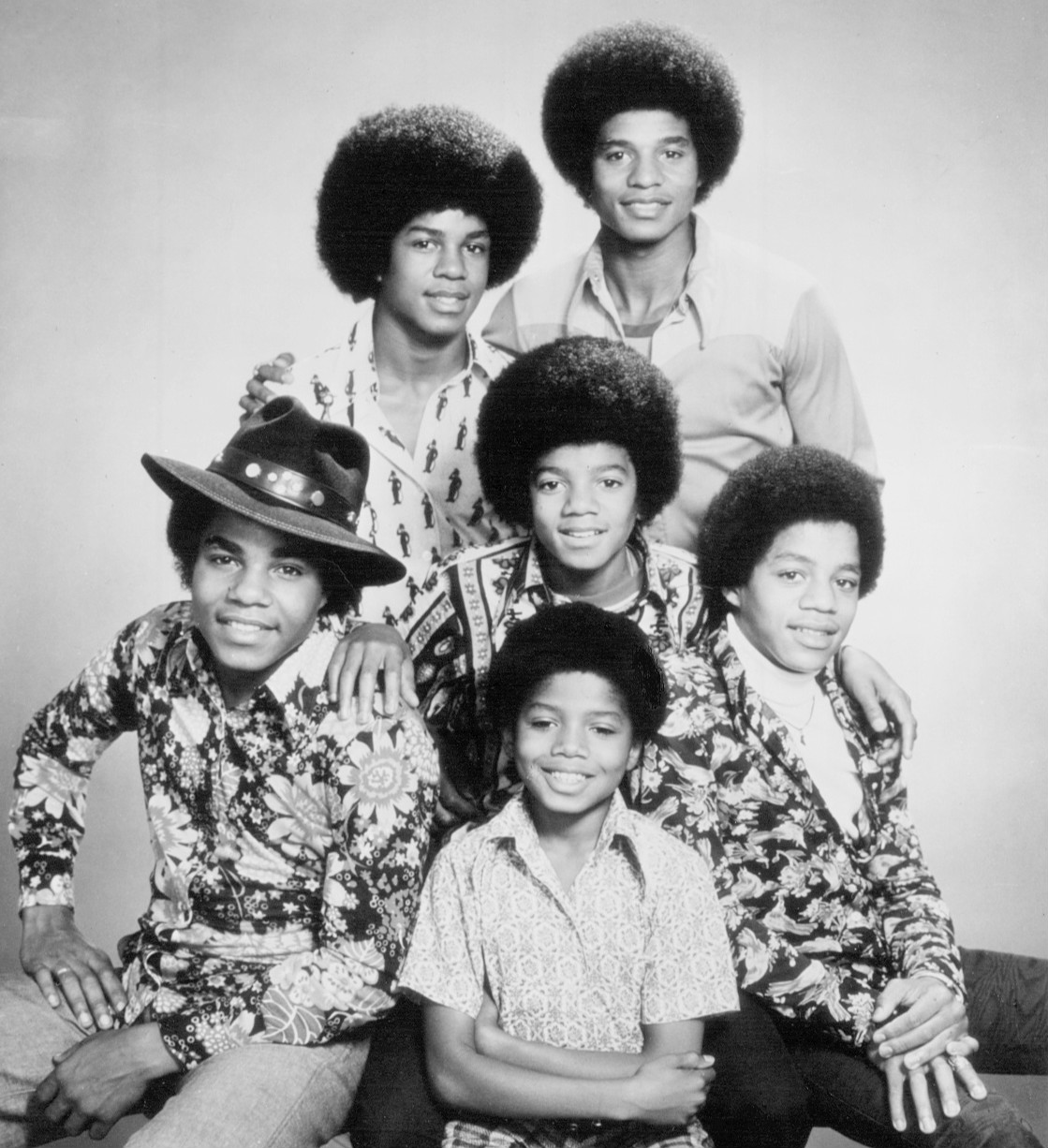 Photo of the Jackson 5 from 1974.